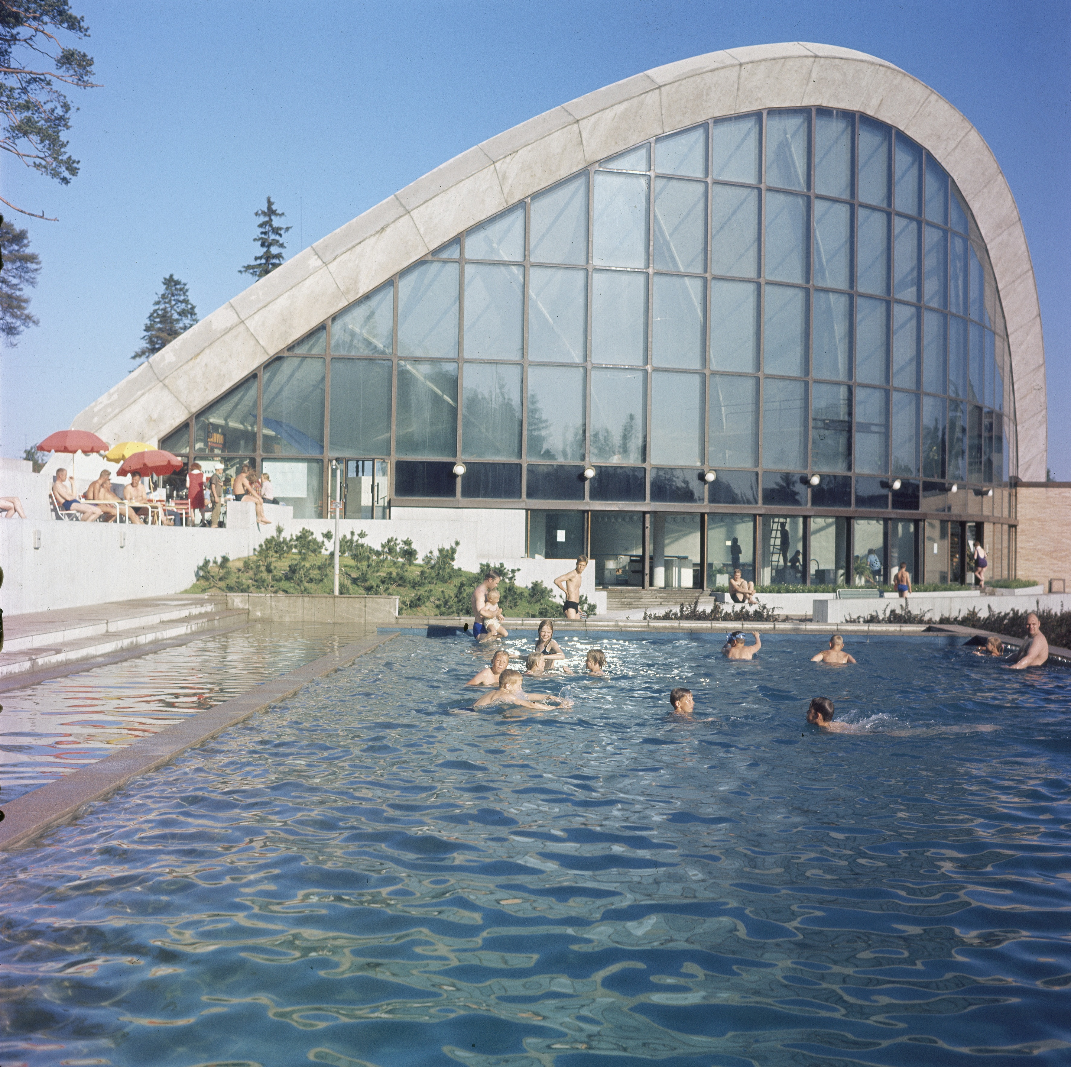 Swimming centre in Urheilupuisto (”Athletic Park”), Kouvola, Finland.